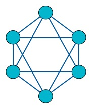 A graph that is 4-vertex-connected